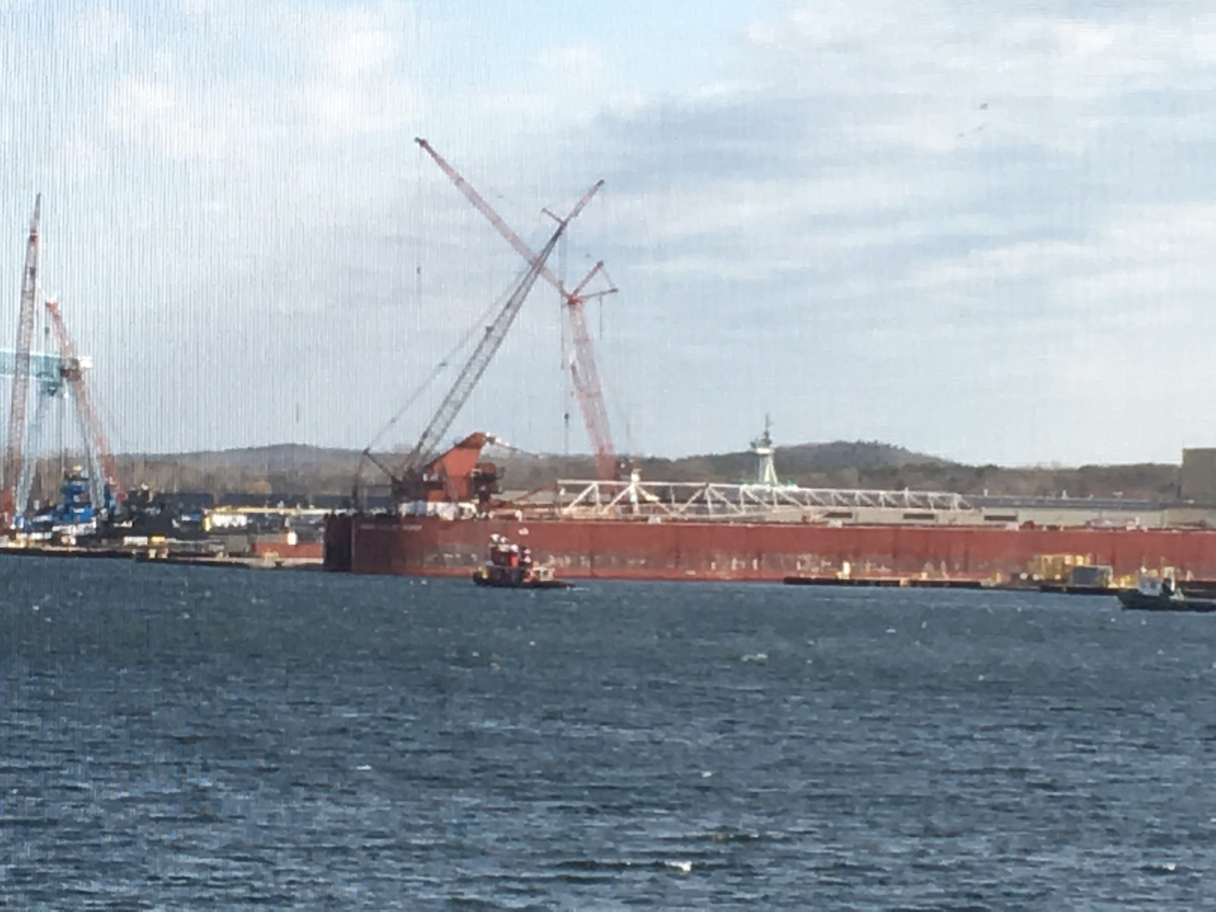 A freighter at the Fincantieri Bay Shipbuilding on April 26th, 2019